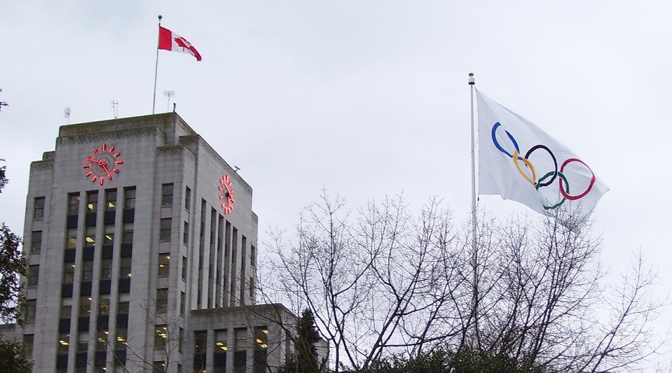 Vancouver City Hall with the Olympic flag.